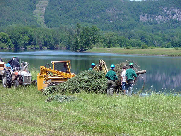 Workers along the Connecticut River as it passes through Fairlee, Vermont, United States. During the summer of 2002 a restoration project aimed at restoring a severely eroded riverbank utilized overgrown Christmas trees to create a revetment at the work site. The trees were eventually planted with various aquatic plant life to help further trap sediment and prevent erosion. See [1]